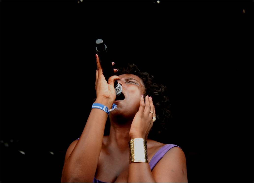 Noora Noor at Notodden Blues Festival 2009